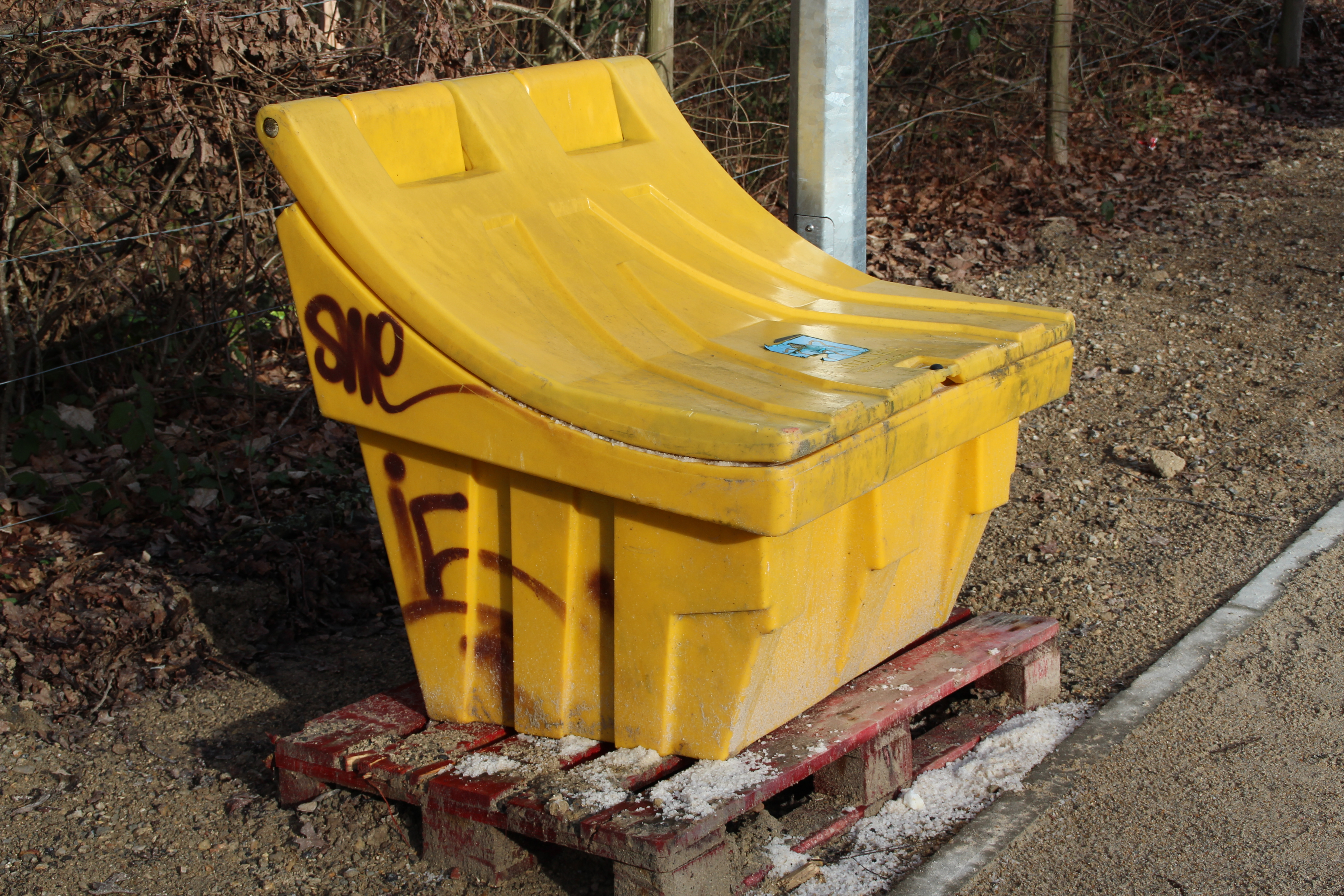 Grit bin in Saint Rémy lès Chevreuse, France